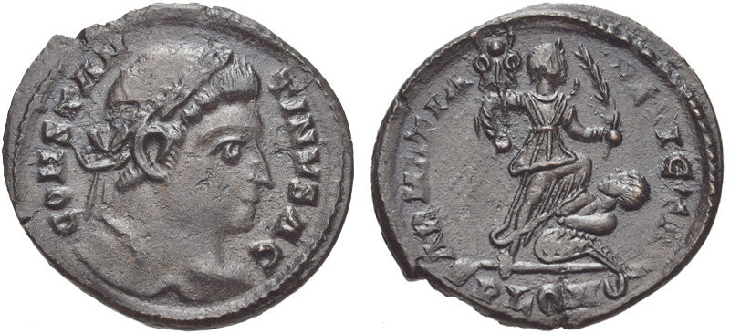 Constantine I. AD 307/310-337. Æ Follis (19mm, 2.68 g, 6h). Londinium (London) mint. Struck AD 323-324. CONSTAN-TINVS AG, laureate head right SARMATIA DEVICTA, Victory advancing right, holding palm and trophy, with left foot on bound captive to right; PLON(crescent). RIC VII 290 (R2). Good VF. The output of the mints at Londinium, Lugdunum, and Treveri served as an important source of propaganda for the entirety of the western empire during the first quarter of the fourth century AD. Constantine and Licinius both drew upon a variety of reverse designs in order to signify such ideas as strength, tranquility, and prosperity, though matters between the two were ever-unstable as war broke out between them in AD 316, most likely over a mutual envy and mistrust of one another. The resulting peace in early AD 317 was short-lived and tensions were only subdued, as hostilities once again gradually increased, culminating in the battle of Chrysopolis in AD 324, the execution of the Licinii, and the sole-reign of the house of Constantine. In AD 322, Constantine crushed a Sarmatian invasion of the Balkans, an event marked by this coin type. During the action, his army entered the Eastern territories of his co-emperor Licinius, thus triggering the civil war between East and West.